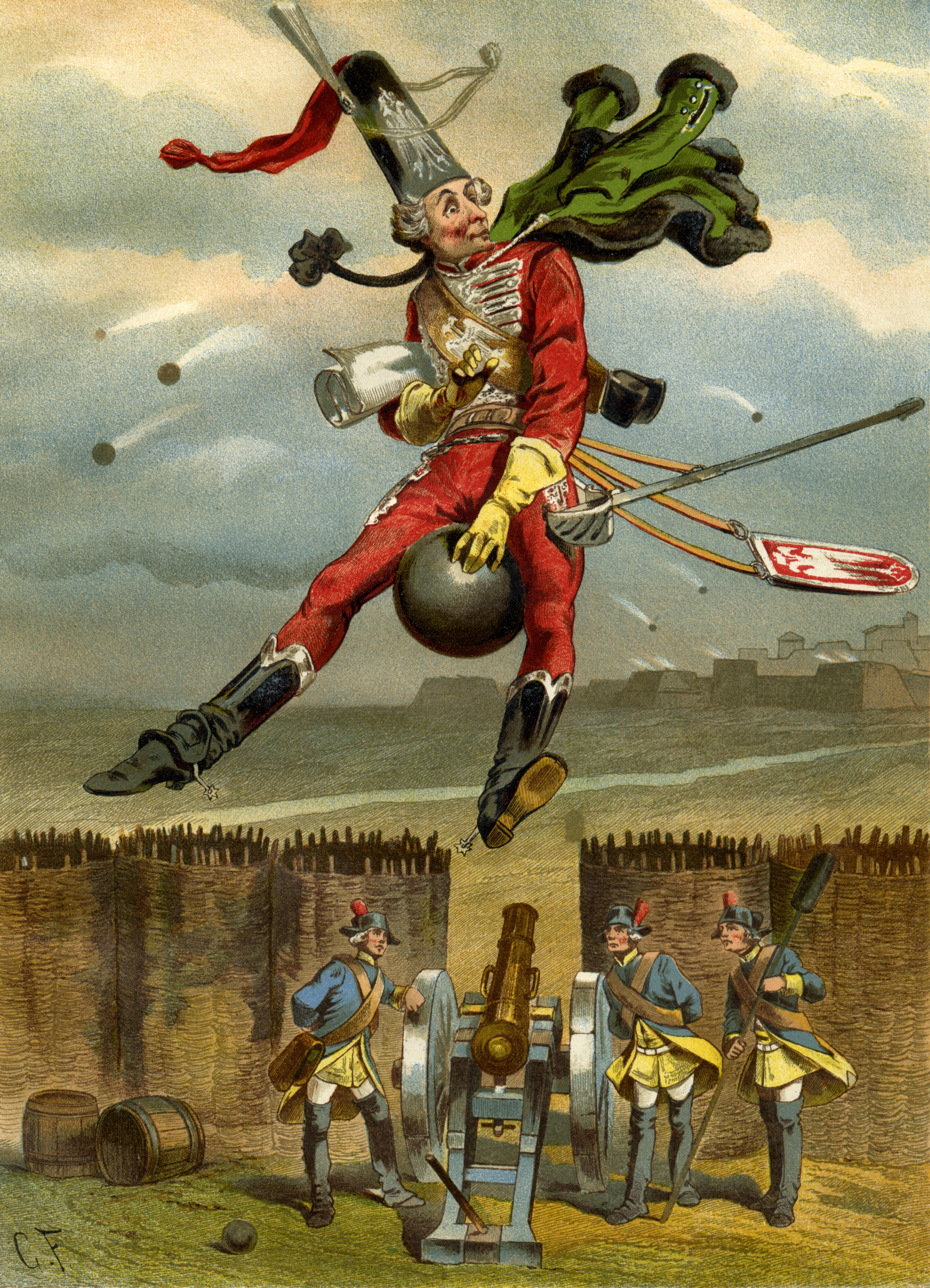 Pic. 5. Baron Münchhausen overriding a cannon-ball